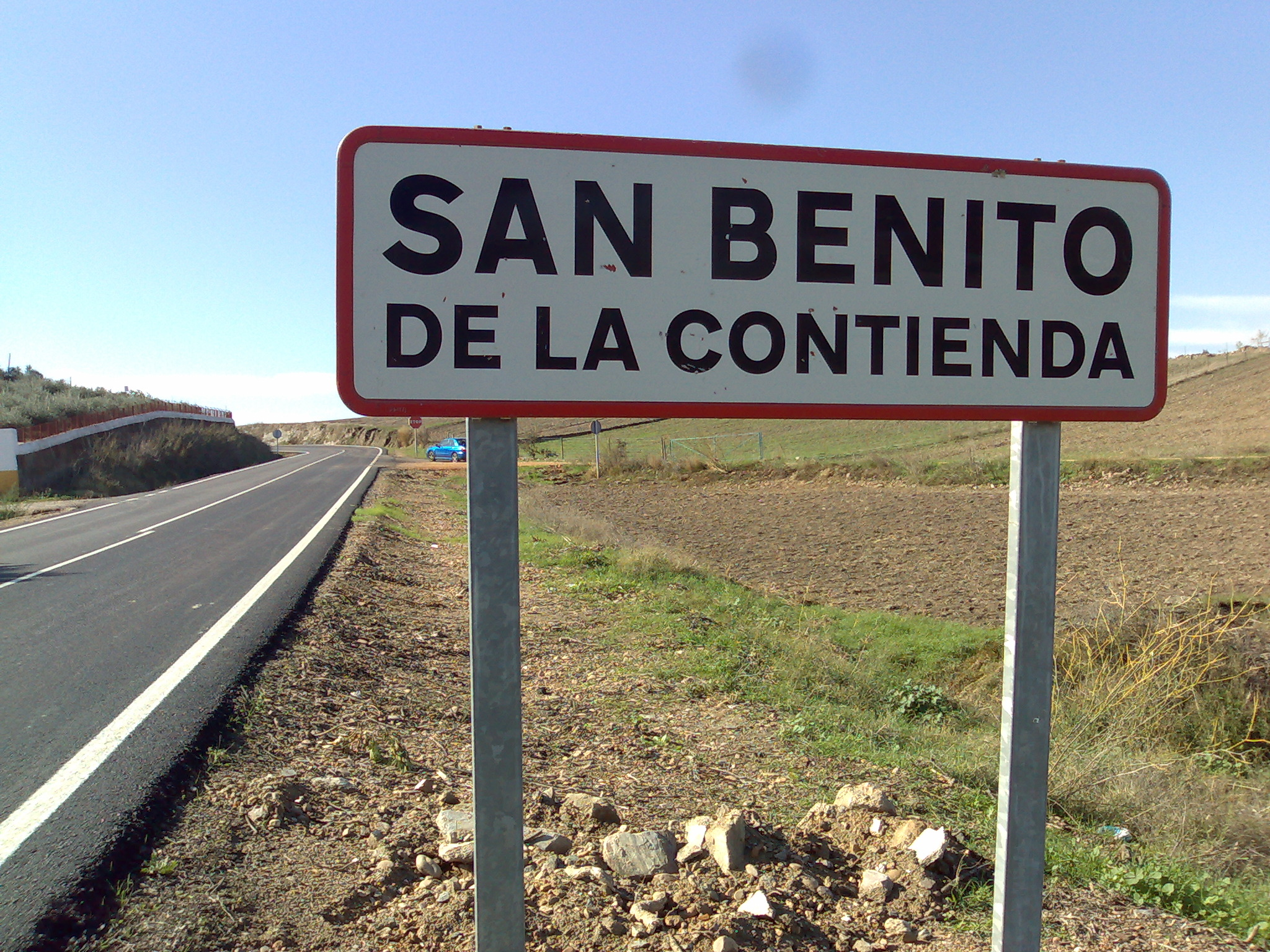 São Bento da Contenda